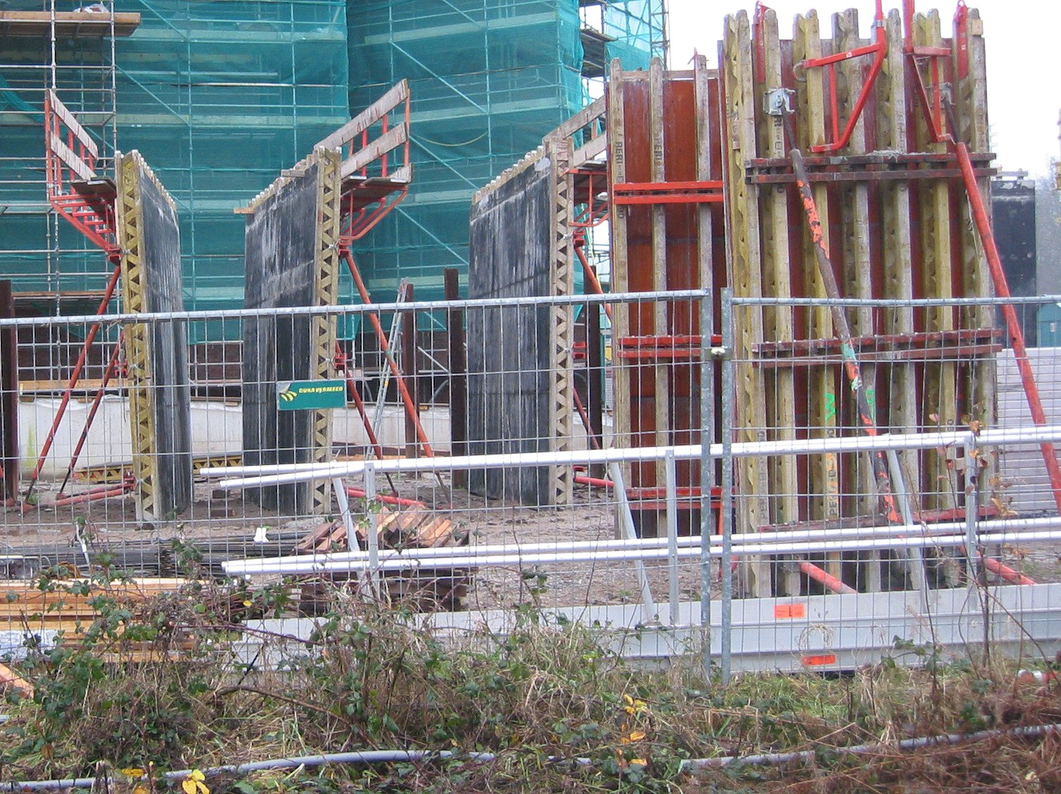 formwork for concrete